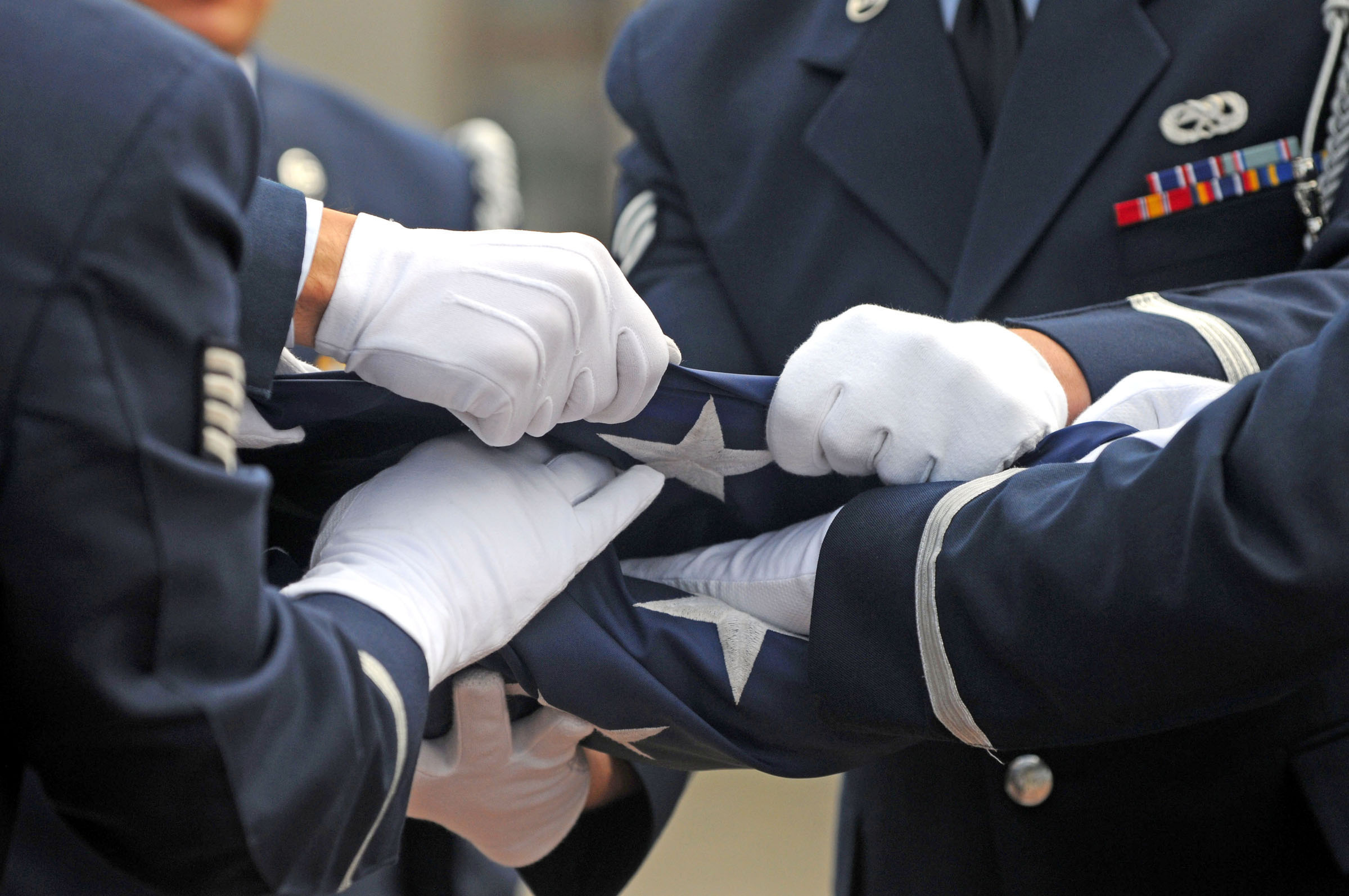 Members of the 86th Airlift Wing base honor guard conduct a flag-folding ceremony during the Ramstein Honor Guard Appreciation Day, September 11, 2009, at Ramstein Air Base, Germany.